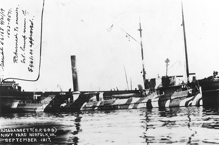 The United States Navy patrol vessel and minesweeper , painted in a camouflage pattern, at the Norfolk Navy Yard in Portsmouth, Virginia.